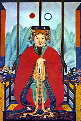 King Kyungsoon of Silla